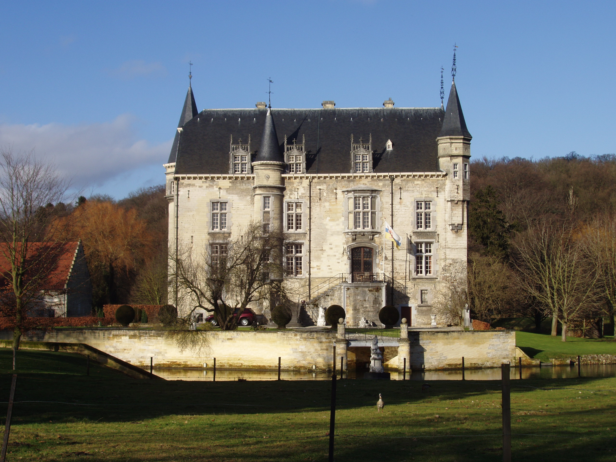 Castle Schaloen, Oud-Valkenburg, Limburg, Netherlands